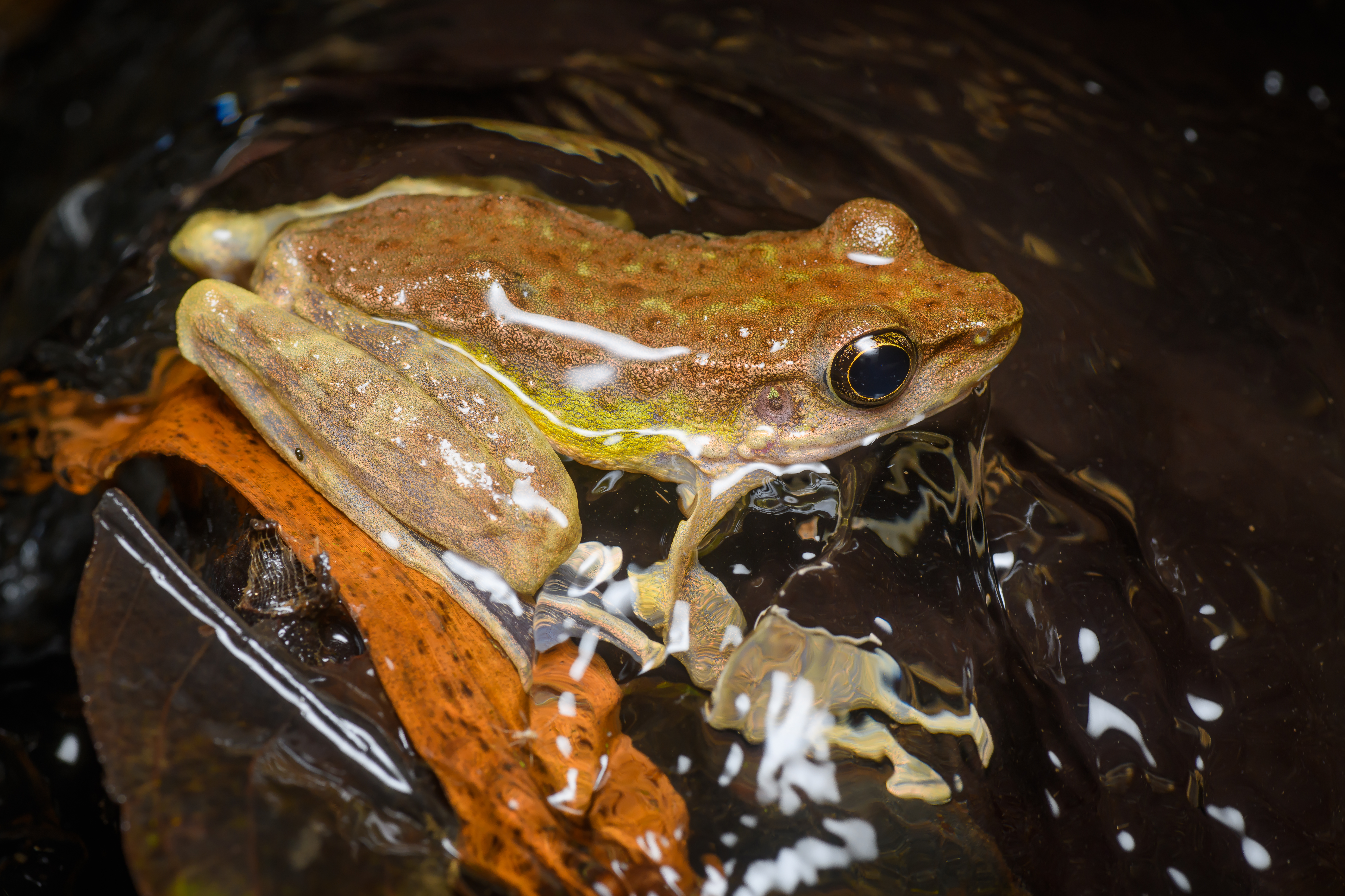 Panha's torrent frog (Amolops panhai). Kui Buri Natioal Park, Thailand.